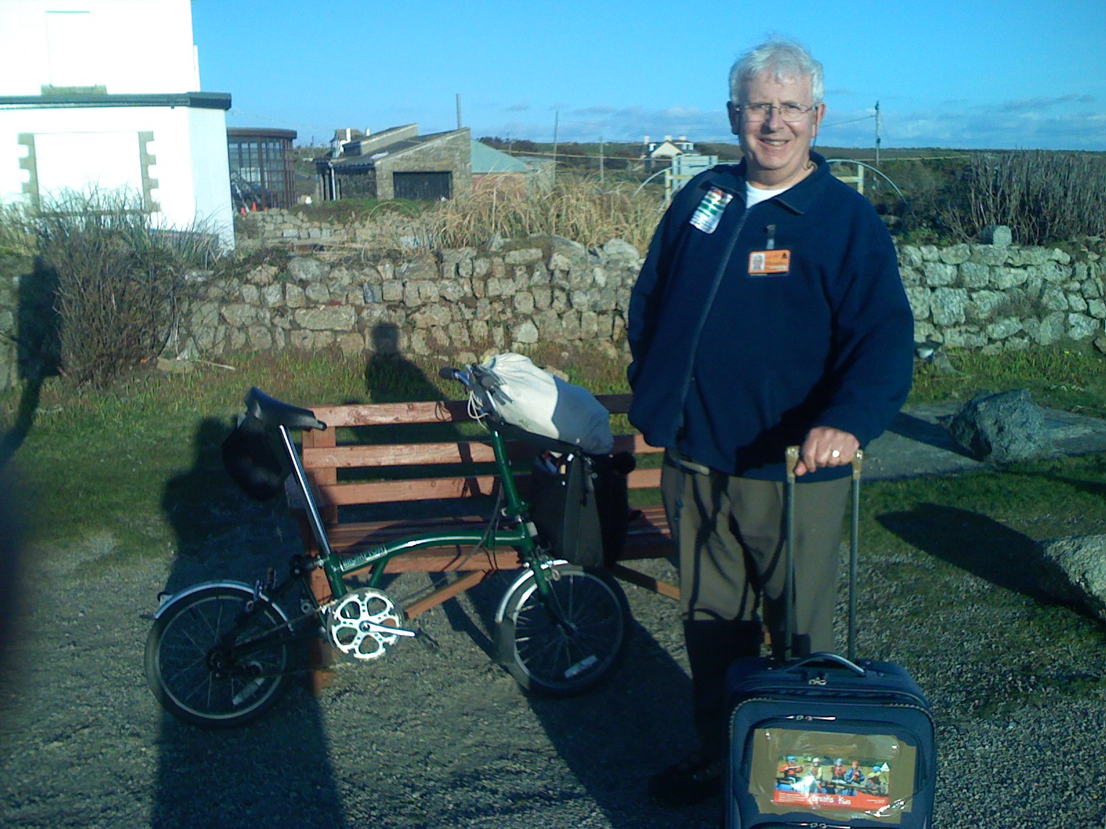 Richard Elloway, photographed in the Land's End car-park, after completing the return half of his Land's End to John o' Groats return journey over the previous fortnight by public transport and raising money for the Youth Hostels Association.